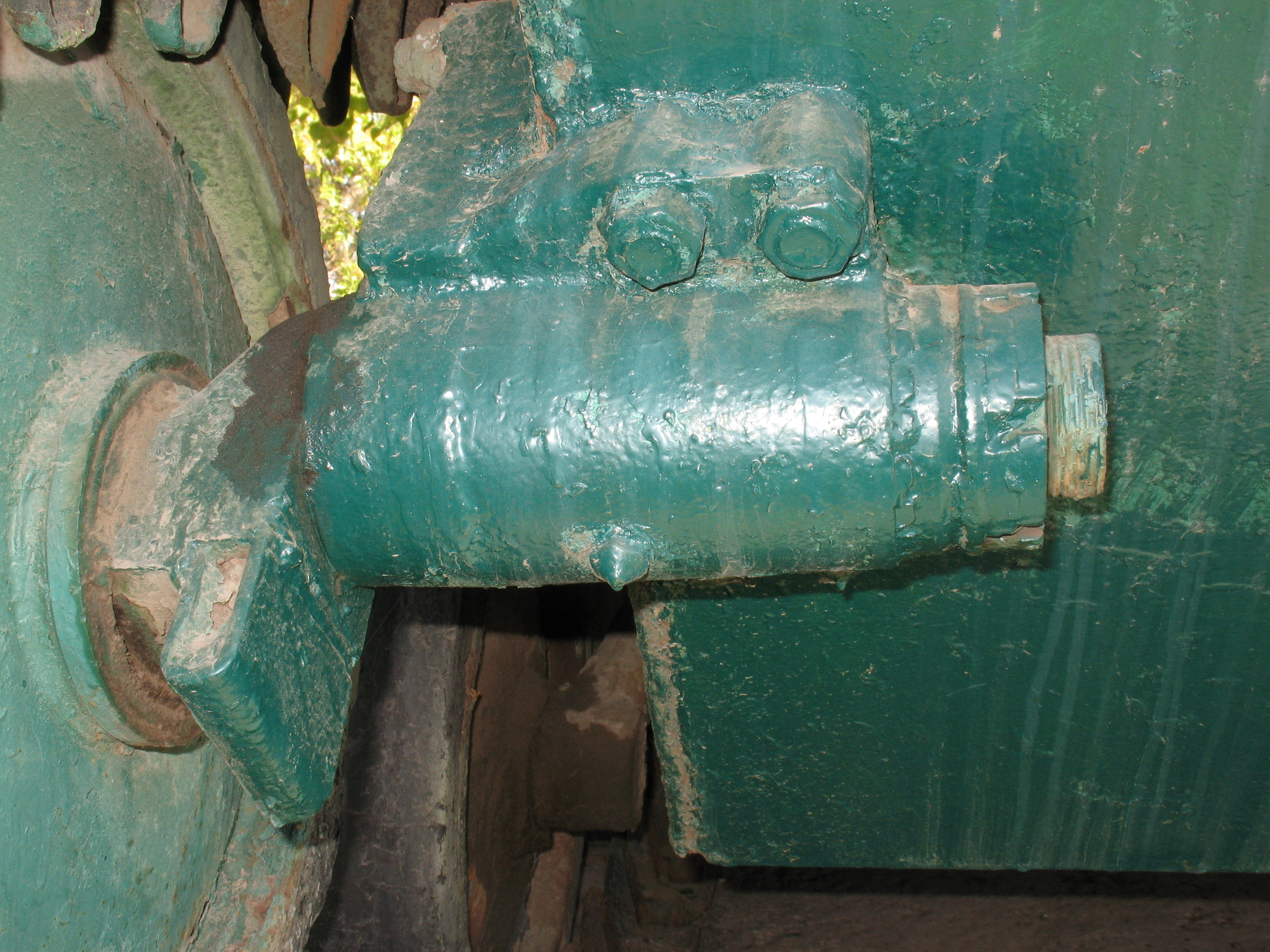 T-70М Soviet WWII tank. Monument in Solonitsevka.